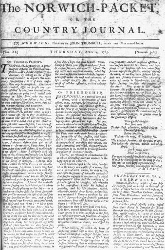 The Norwich Packet or, The Country Journal; Date: 04-14-1785; (Norwich, Connecticut)